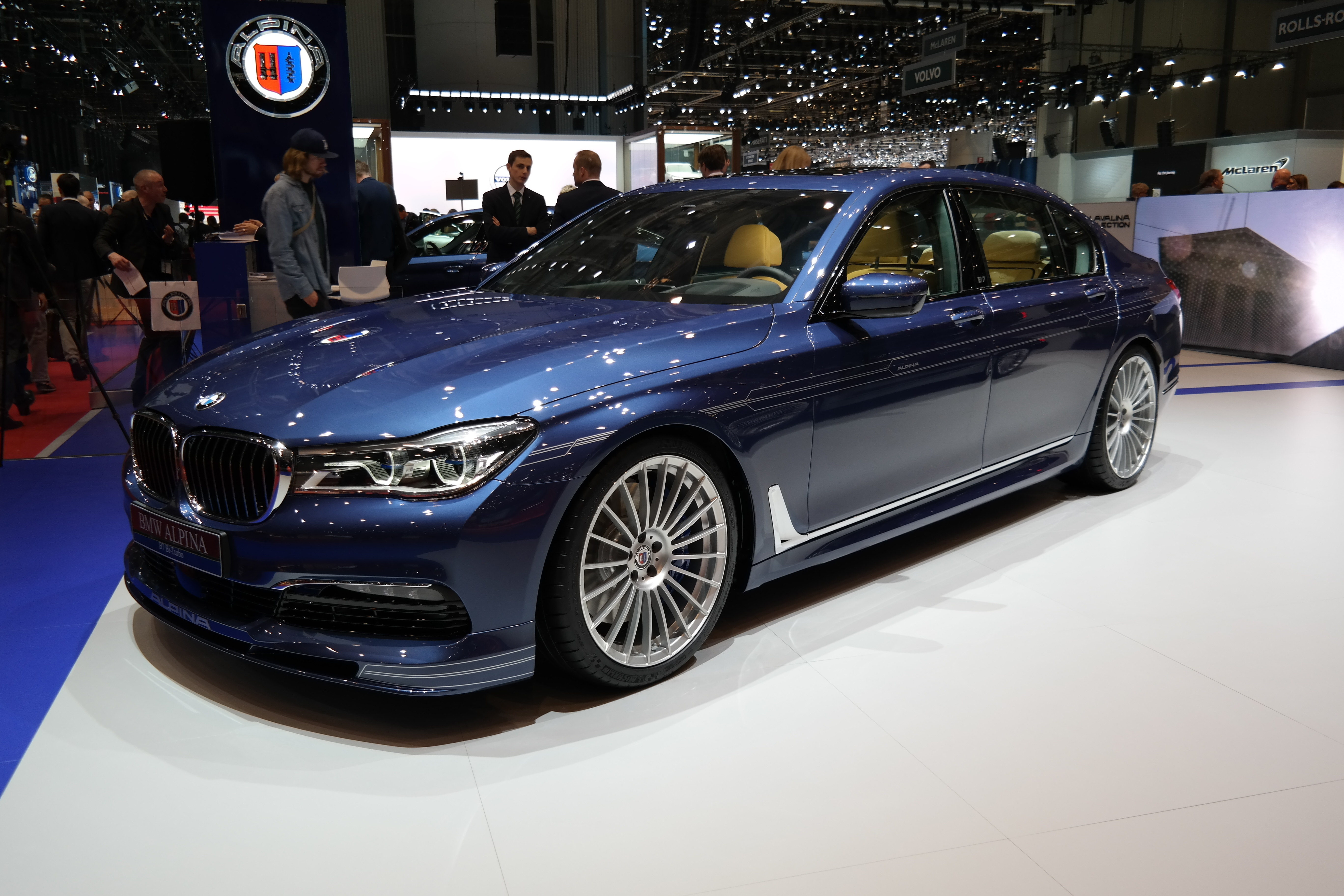 Geneva Motor Show 2017 (photo taken on the first press day)